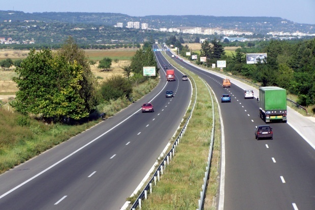 Motorway Hemus